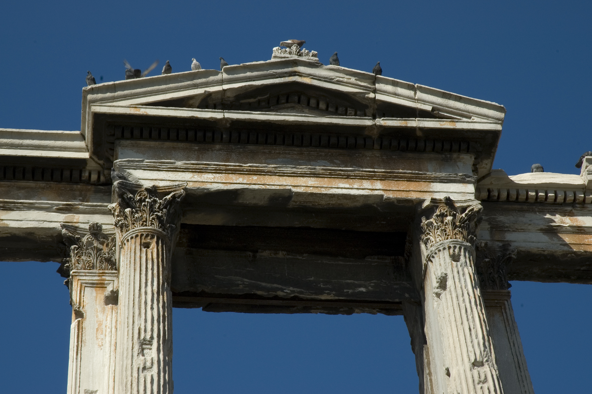 J. Matthew Harrington, personal digital image, March 1, 2007